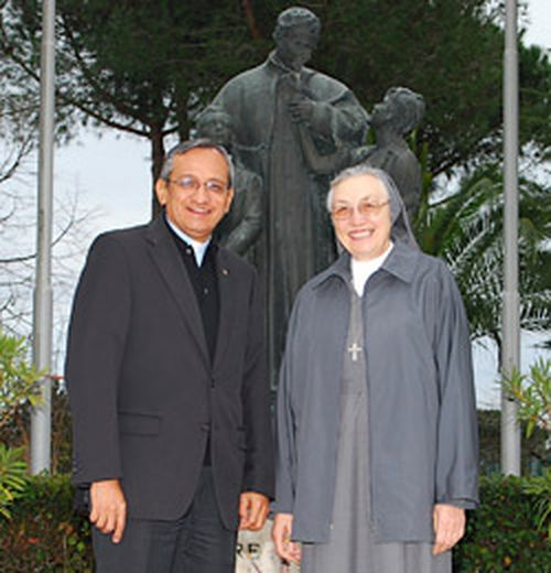 salesianos y salesianas